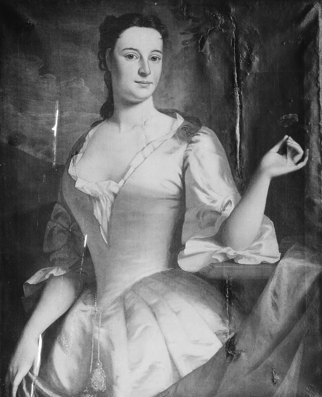 Title:Mrs. James Tilghman (Anne Francis). Author/Artist:Feke, Robert, approximately 1705-1750 Creation Date:1725 40 x 32 in. oil on canvas. Provenance